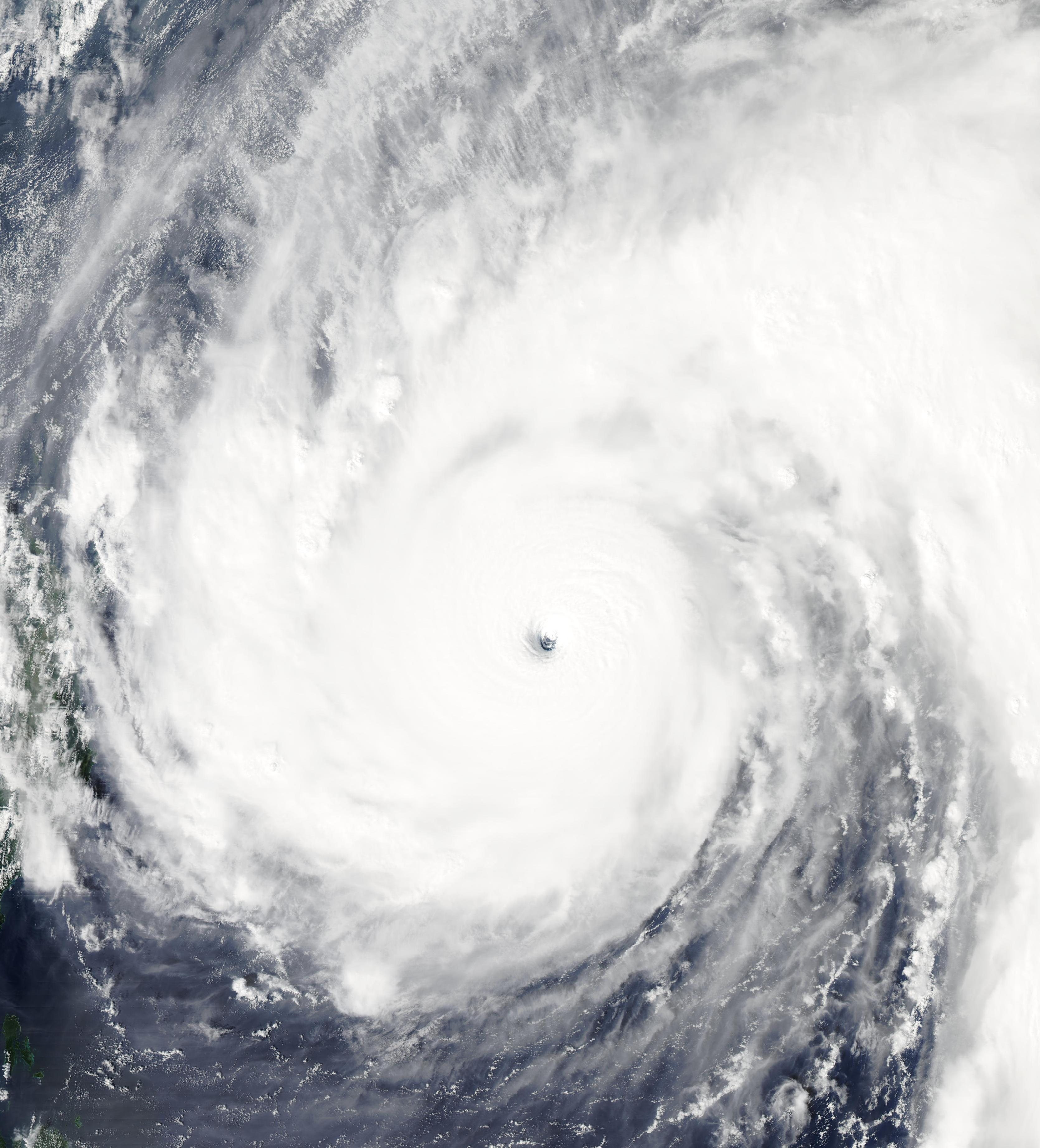 Typhoon Megi cat.5 Crefl2_143.A2010290045500-2010290050000.250m.jpg